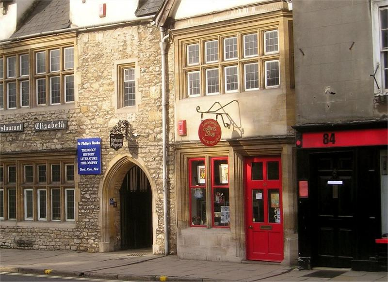 Alice's Shop, St Aldate's, Oxford, England. September 2, 2010.